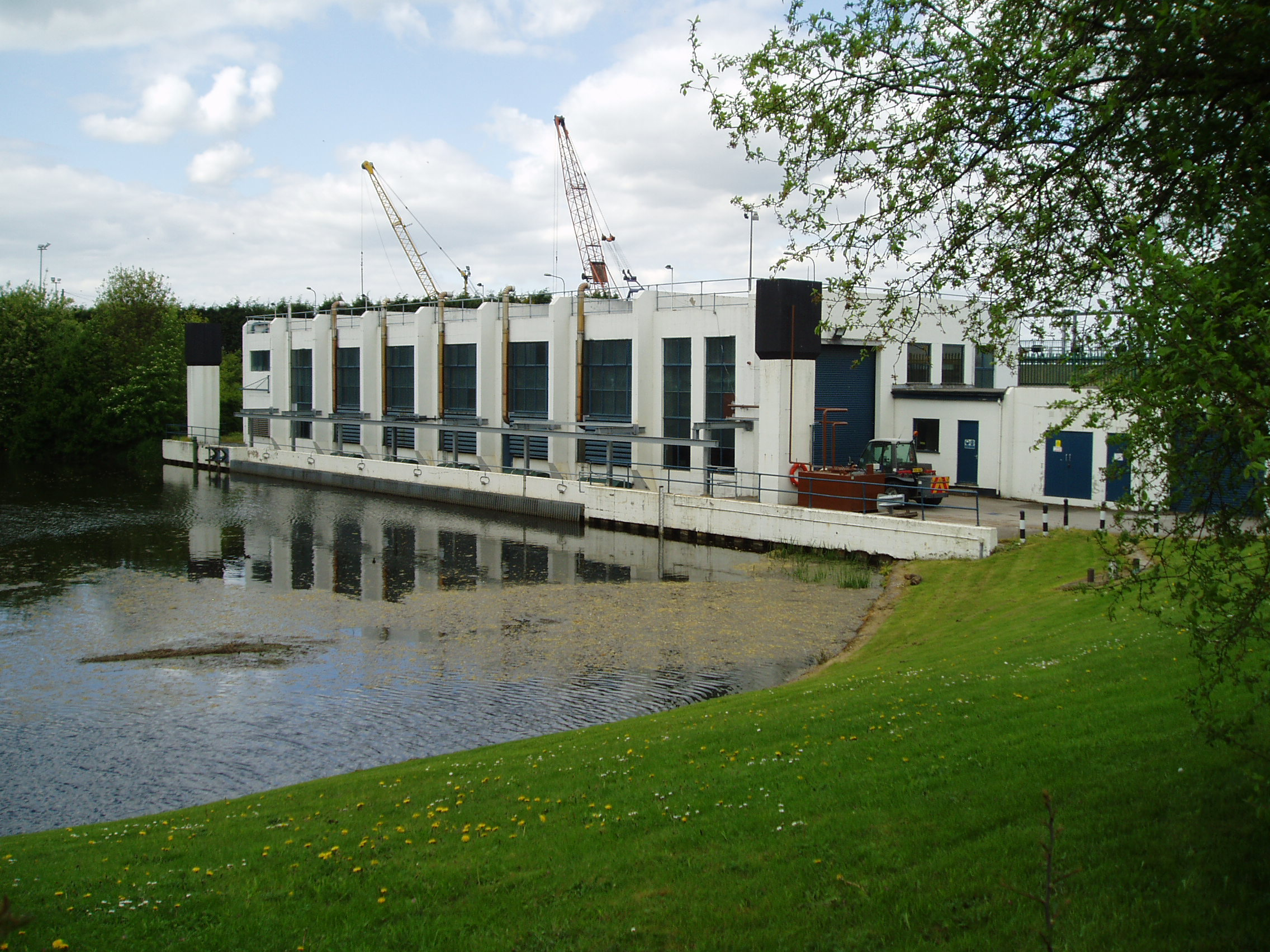 Keadby Pumping Station, where water drained from Hatfield Chase enters the River Trent